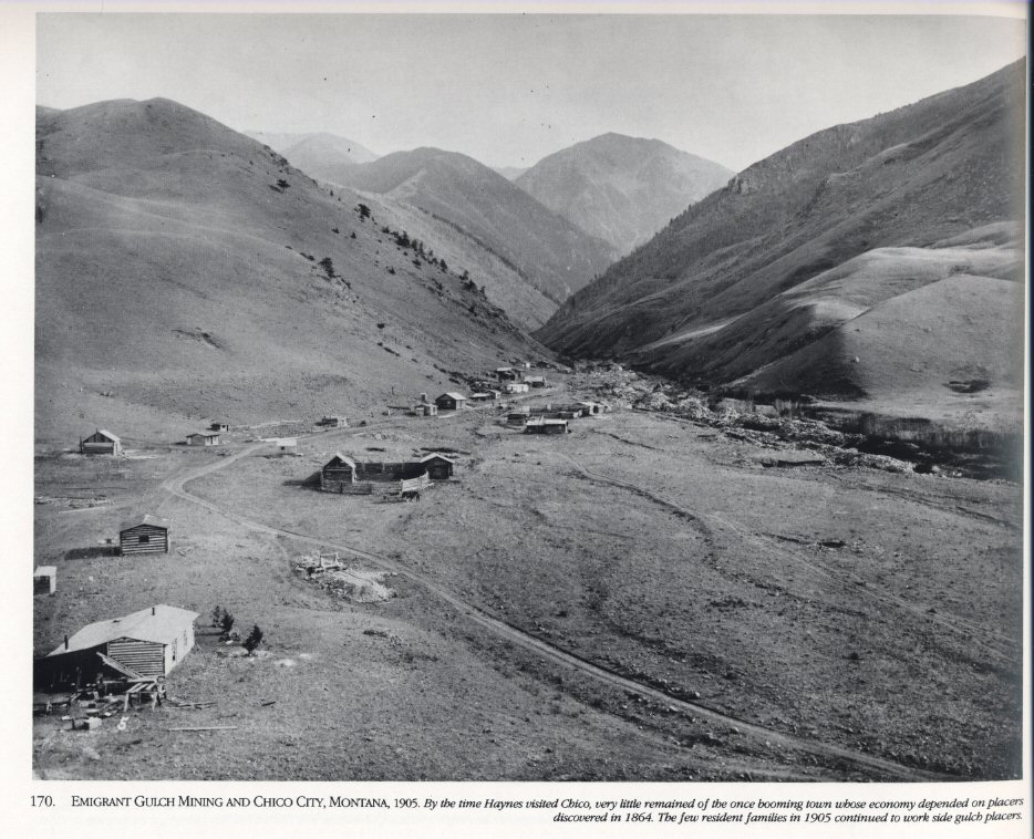 Emigrant Gulch and Chico City, Montana 1905 Photo By Frank Jay Haynes